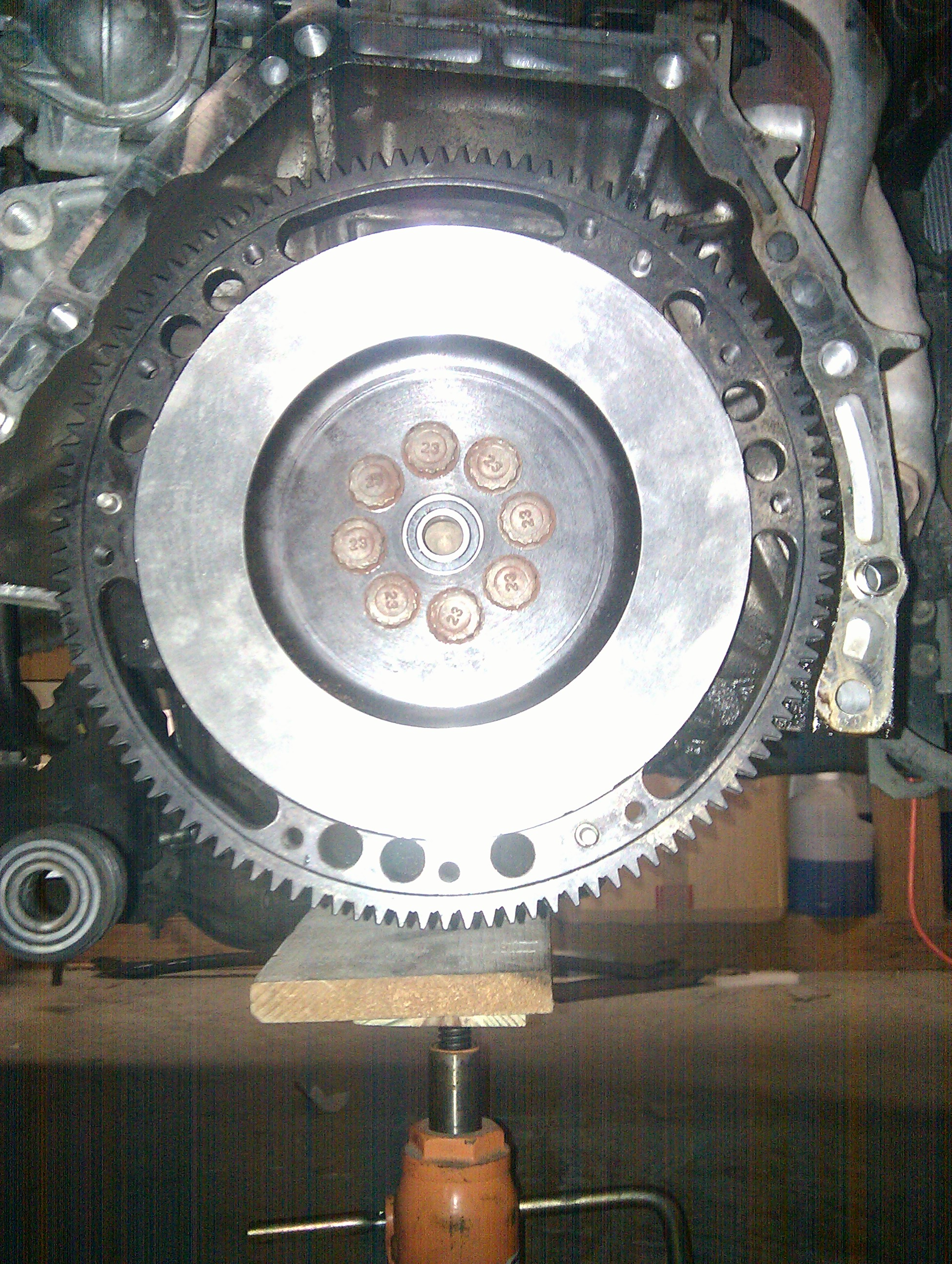 New 11 lb Chromoly CXMotorsports/CXRacing flywheel, installed in a 1998 Acura Integra GSR.